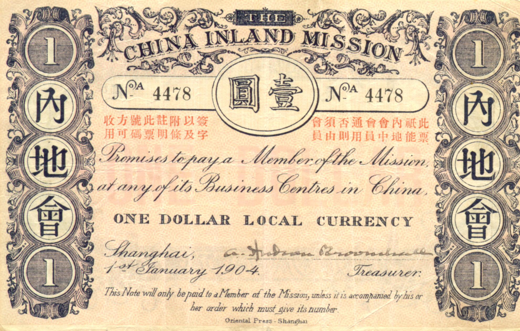 Banknote of the China Inland Mission